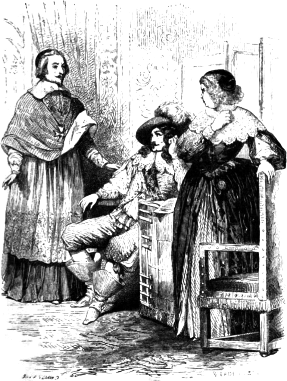 The queen mother Marie de' Medici demanding Cardinal Richelieu's dismissal to her son, king Louis XIII of France, in a stormy scene in the Luxembourg Palace, on November 10, 1630, known as Day of the Dupes.